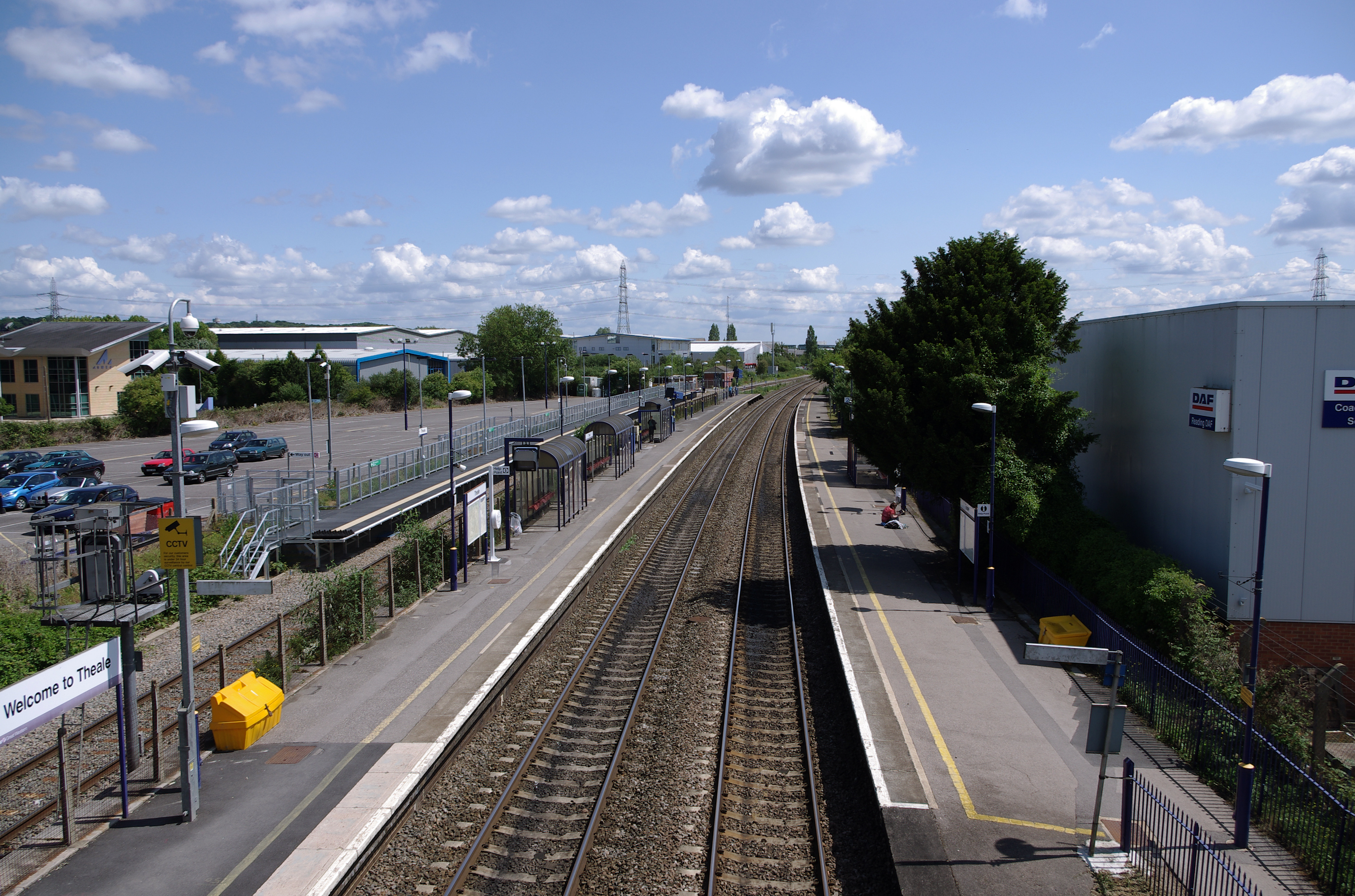 Theale railway station, looking east from the overbridge.